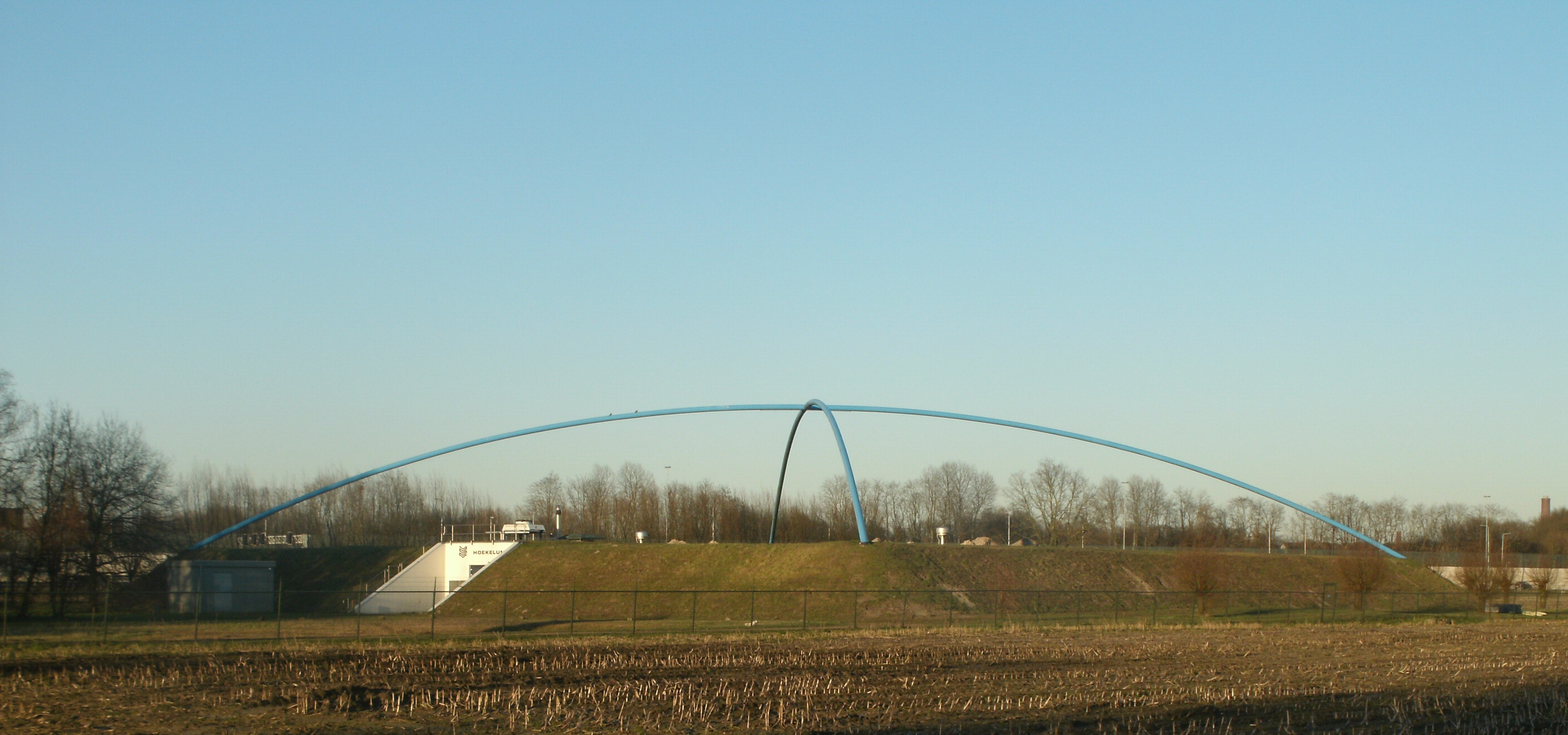 sculpture "De Waterdruppel" by Marijke de Goey. Ede, The Netherlands